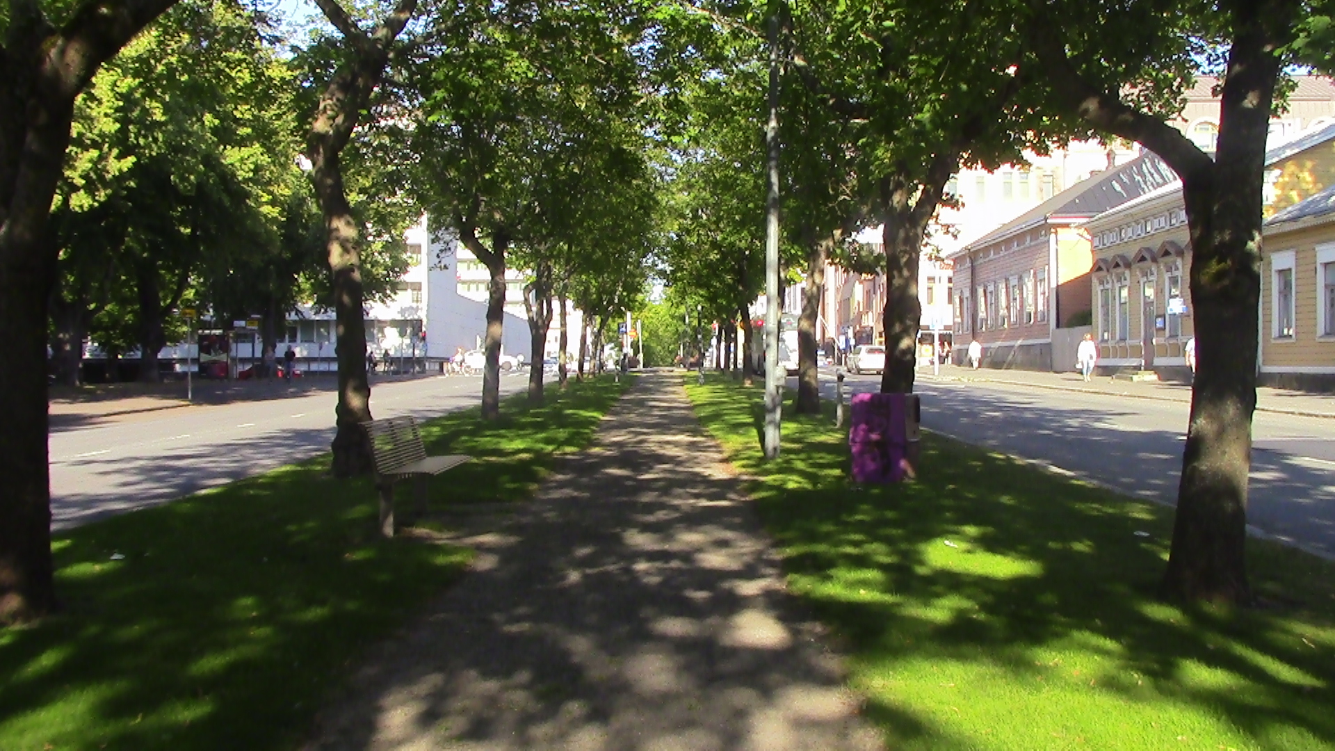 Vaasanpuistikko esplanade near Kirkkopuisto seen towards east.